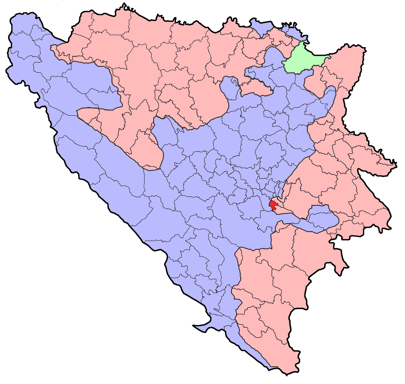 Location of Istočna Ilidža municipality in Bosnia and Herzegovina.